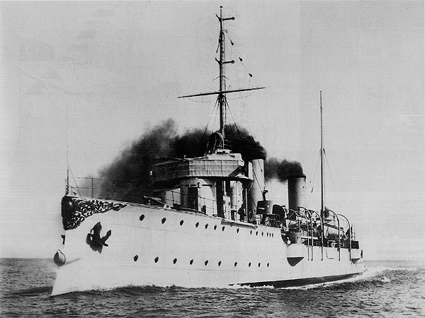 The Ottoman torpedo cruiser Peyk-i Şevket during trials in the Kieler Förde in 1907.